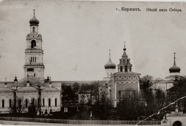 Annunication Monastery in Kirzhach in 1910